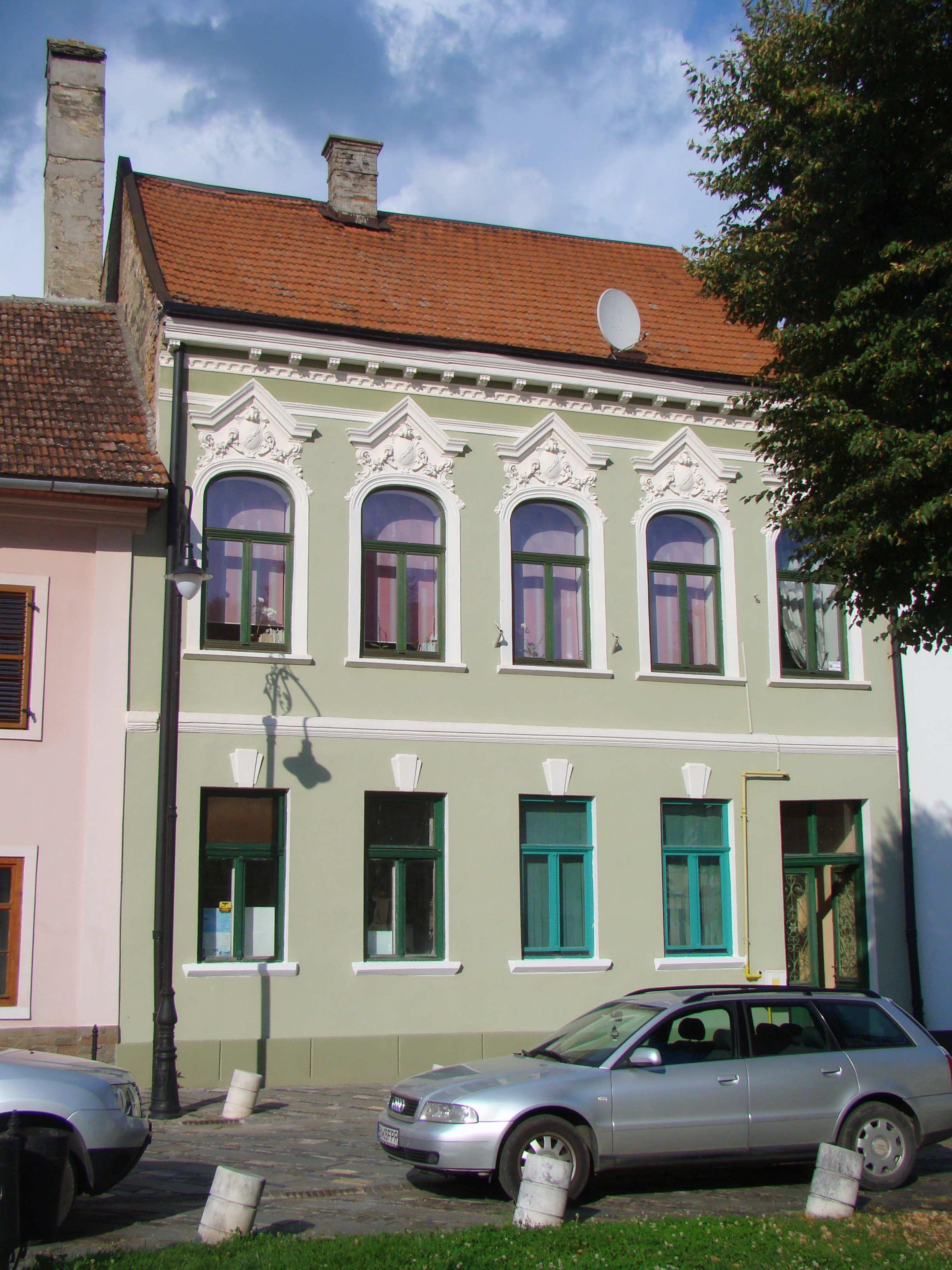 House, historic monument, in Bistrița, Piața Mică 3